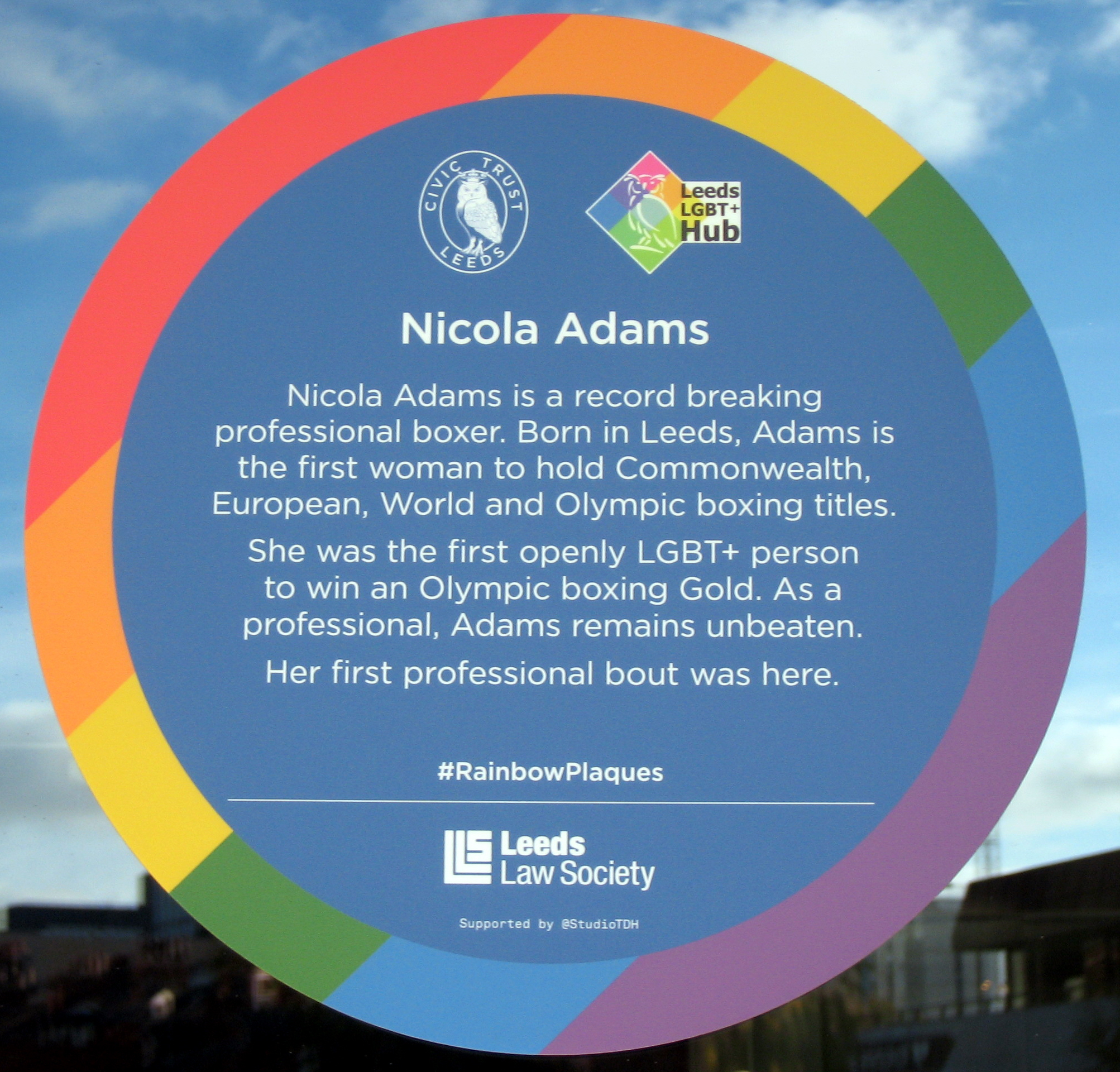 Rainbow Plaque celebrating Nicola Adams on the wall of First Direct Arena